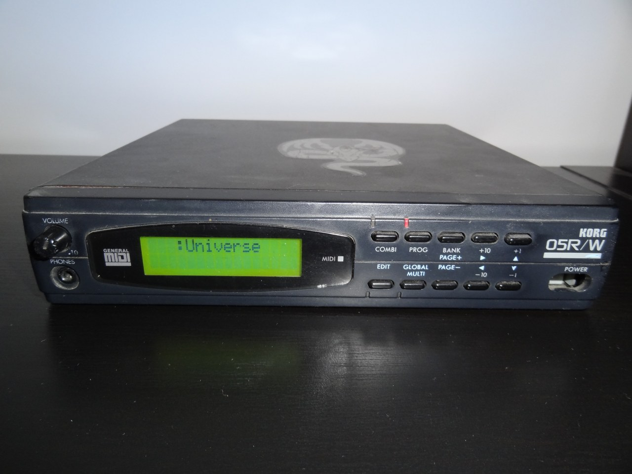 Korg 05R/W sound module with General MIDI